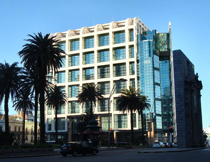 The Executive Tower in Plaza Indepencia of Montevideo, Uruguay.